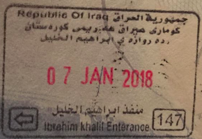 Exit stamp at Ibrahim Khalil Entrance (2018) American passport